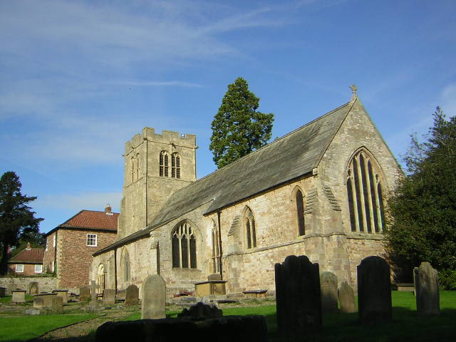 Goldsborough St Mary's Church seen from the circular base of an old tombstone that looks like it had an upright at some time but is now severely eroded.